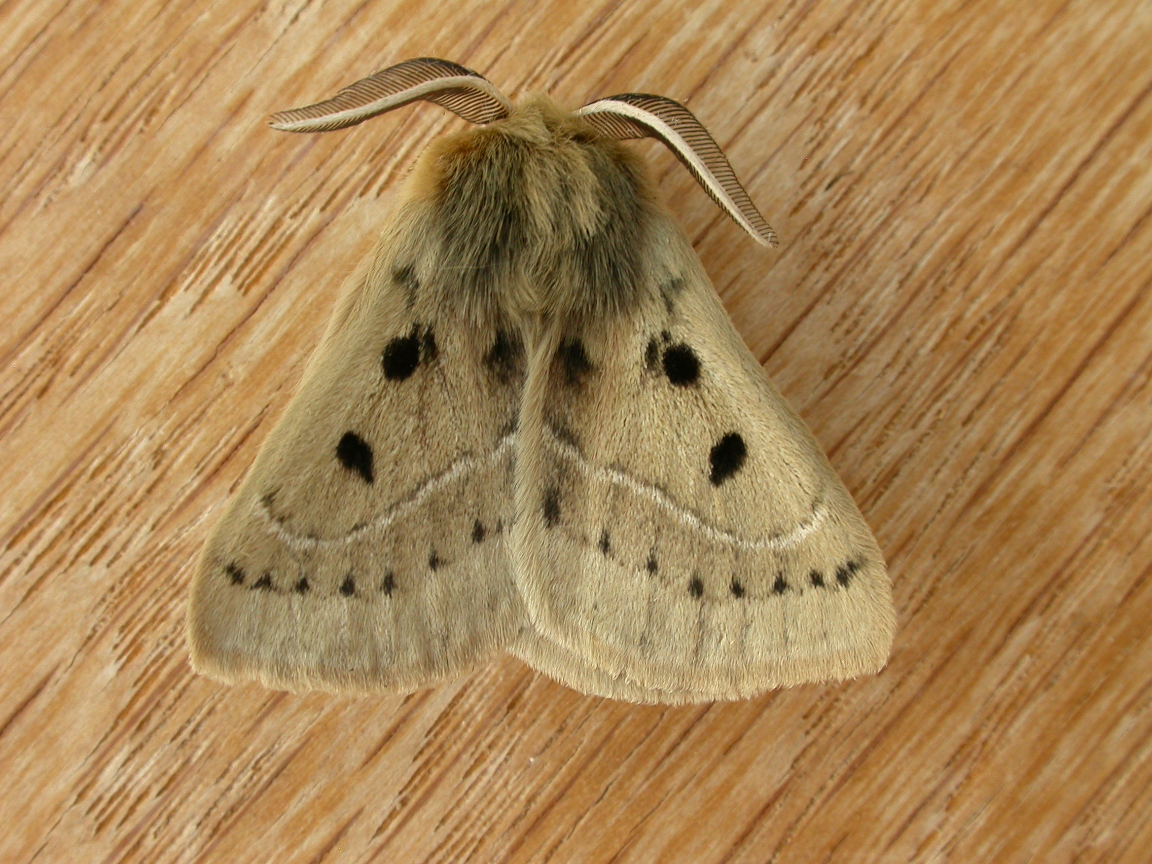 Anthela ocellata (Walker, 1855), to MV light, Aranda, ACT, 19/20 November 2010